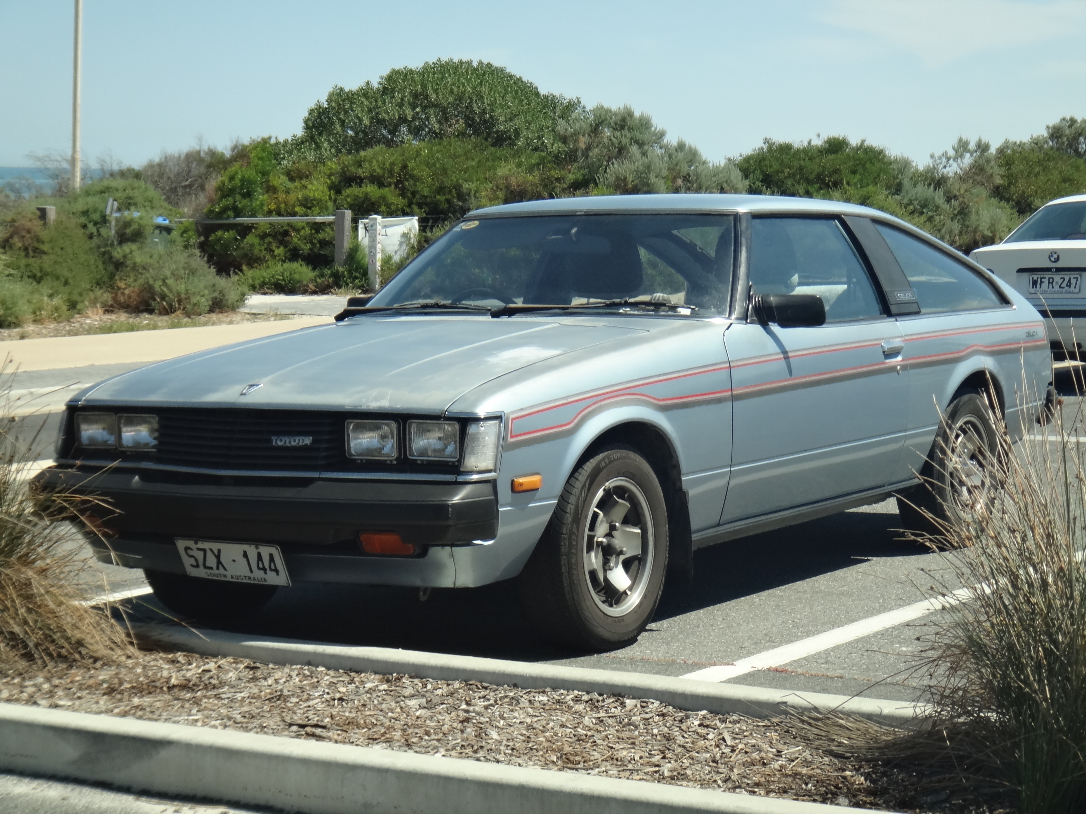 A nice surprise to see one of these still getting around, can't recall the last time I actually saw one, but a good spot at the end of the day.